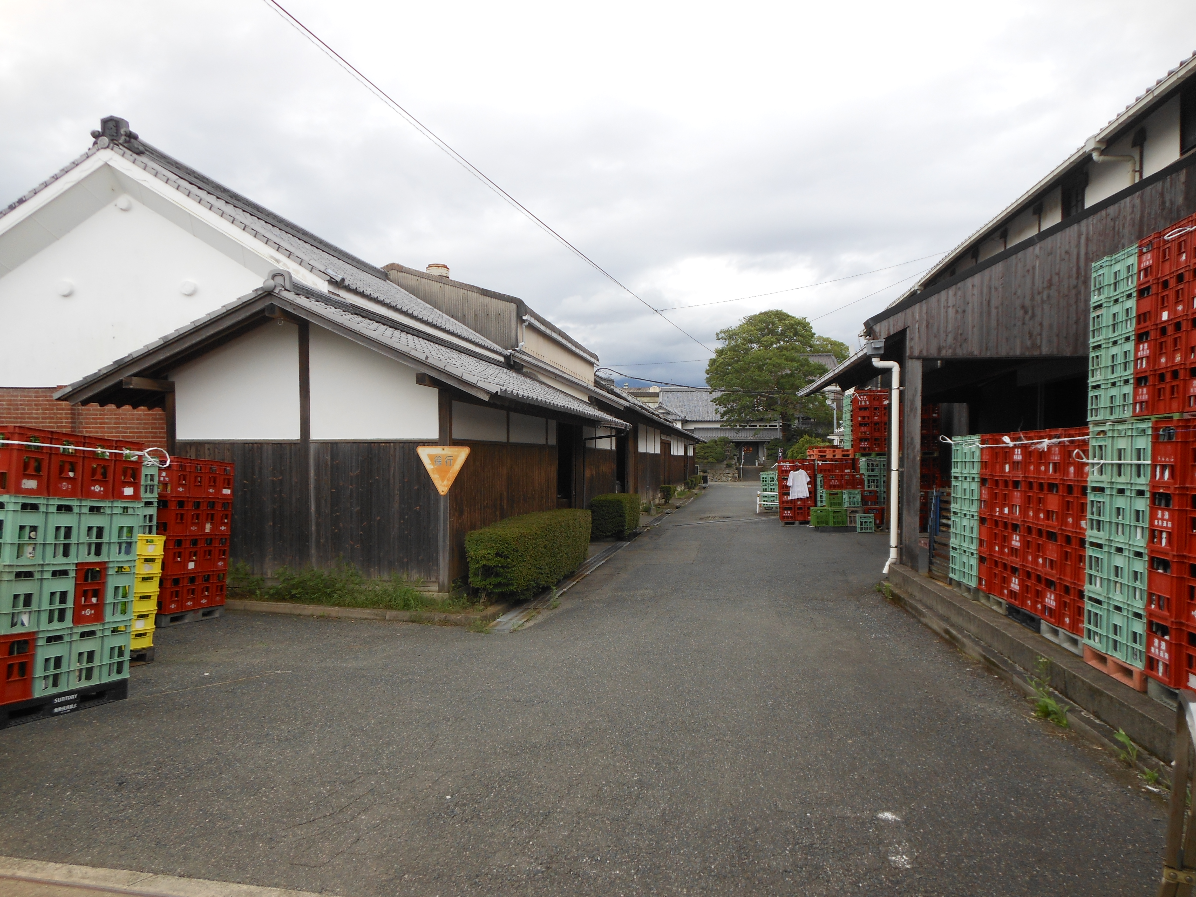 Traditional warehouses at Amabuki Shuzō, a Sake brewery in Higashio, Miyaki town, Saga prefecture.